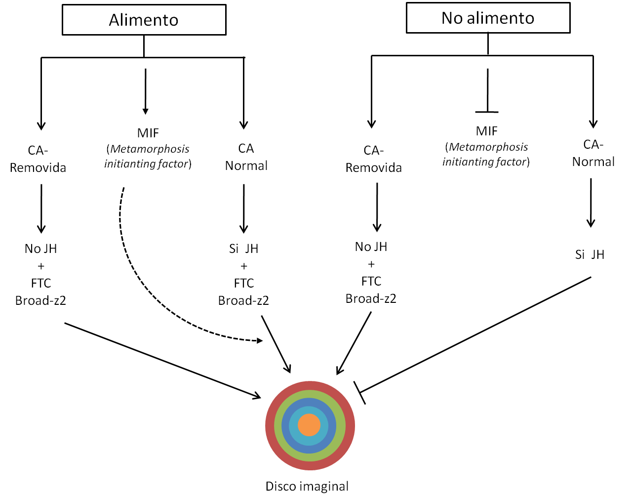 Cadena de eventos que conducirán a la supresión o activación del desarrollo del disco imaginal bajo la disponibilidad o ausencia de alimento. Basada en los experimentos de Truman y colaboradores (2006).